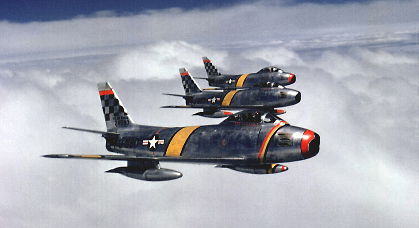 Original description: A three-ship formation of F-86F Sabres assigned to the 51st Fighter-Interceptor Wing fly over Korea in 1953. The 51st Fighter Wing, under various designations, fought in the Korean War and has provided aerial support and deterrence on the Korean Peninsula since 1971.